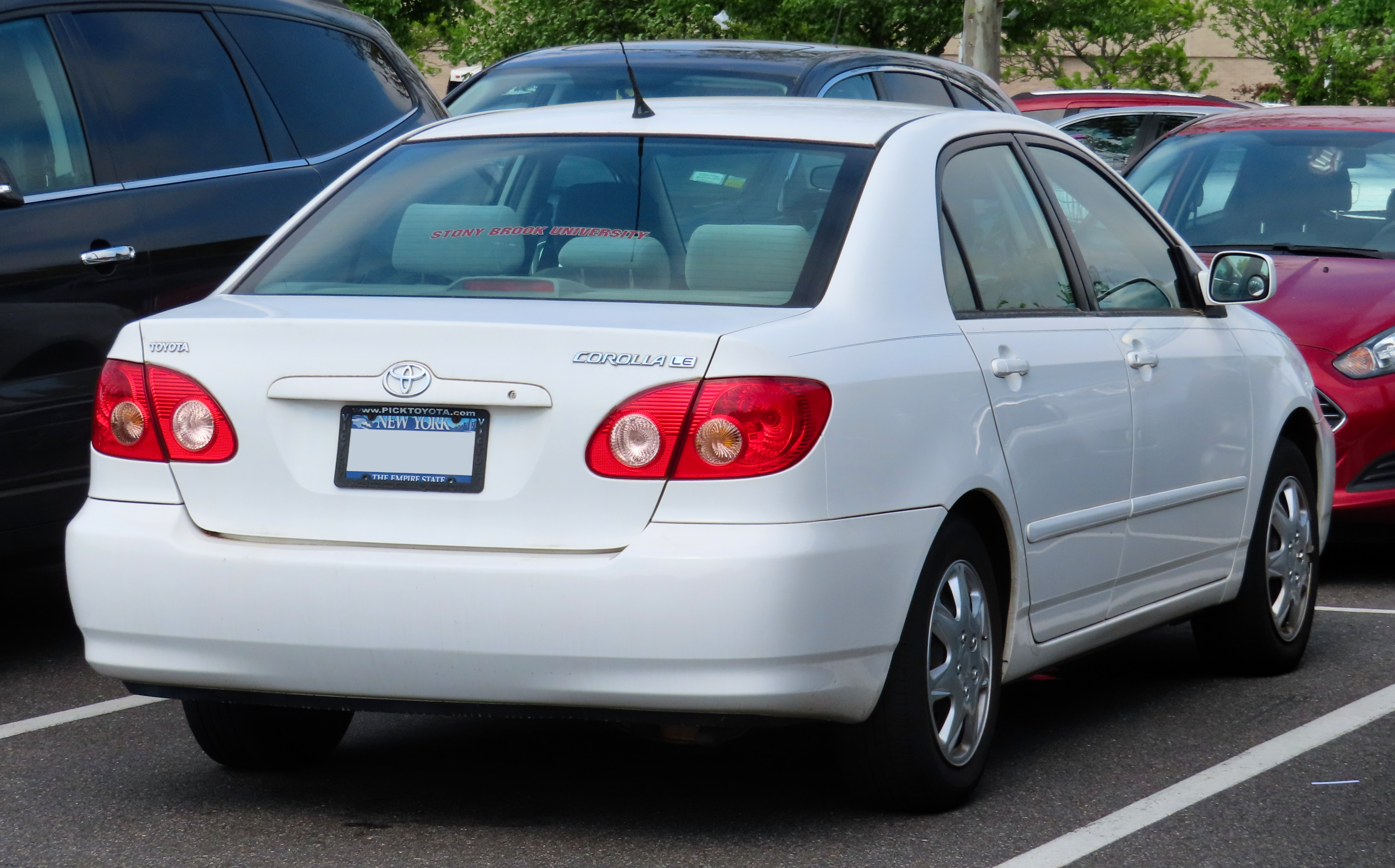 A 2007 Toyota Corolla LE photographed in College Point, Queens, New York, USA